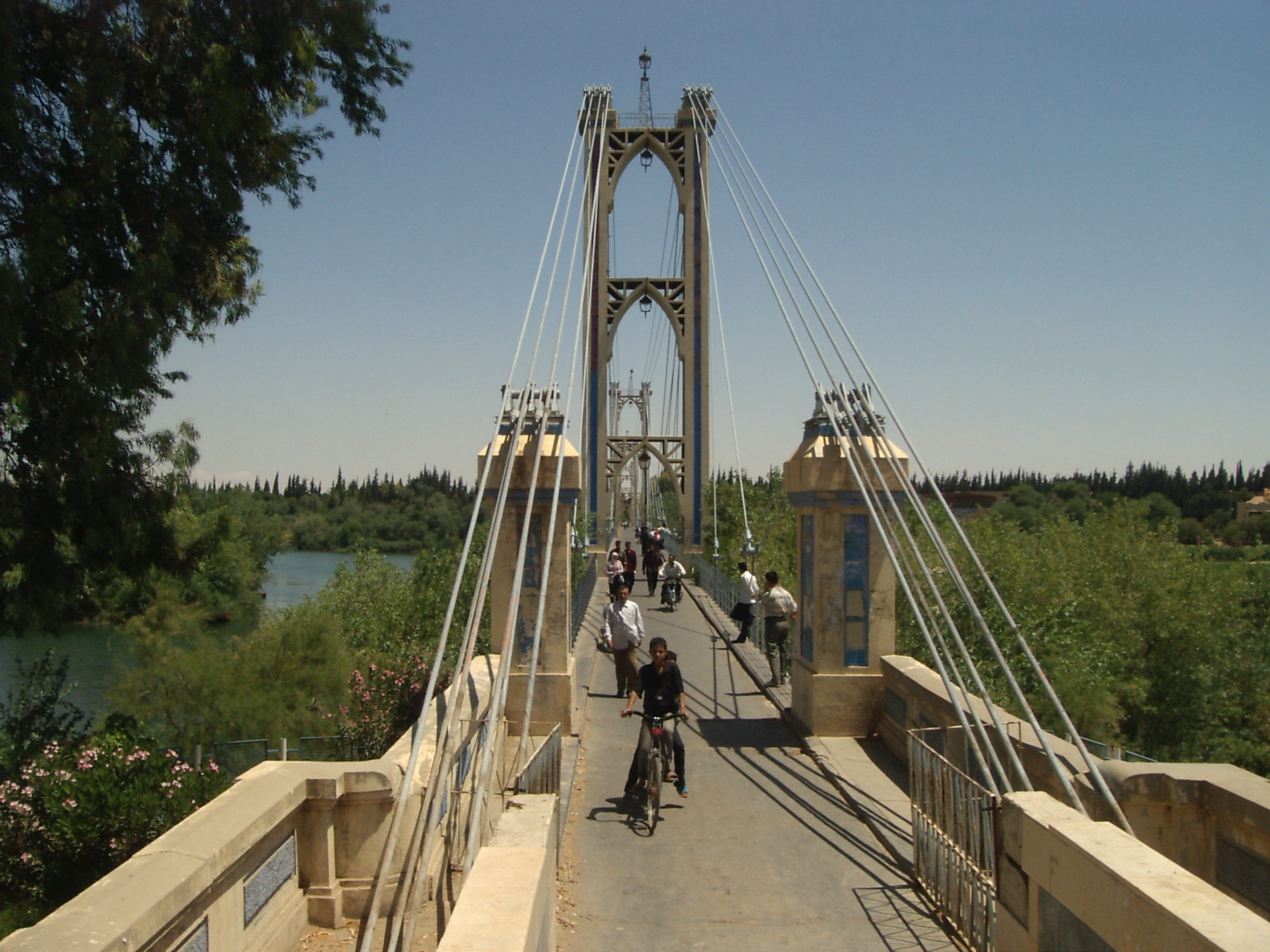 The Deir ez-Zor suspension bridge - a 1927 suspension bridge crossing the Euphrates River in the city of Deir ez-Zor in north-eastern Syria.